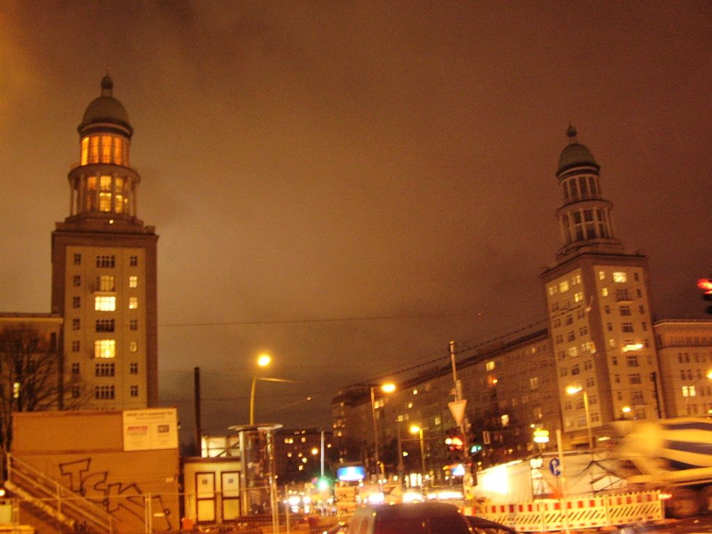 Frankfurter Tor in Berlin